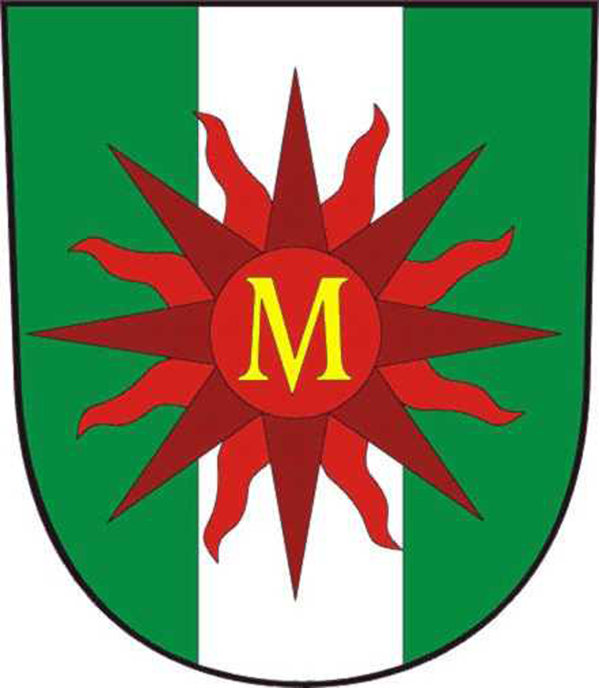 Municipal coat of arms of Meziboří village, Most District, Czech Republic.